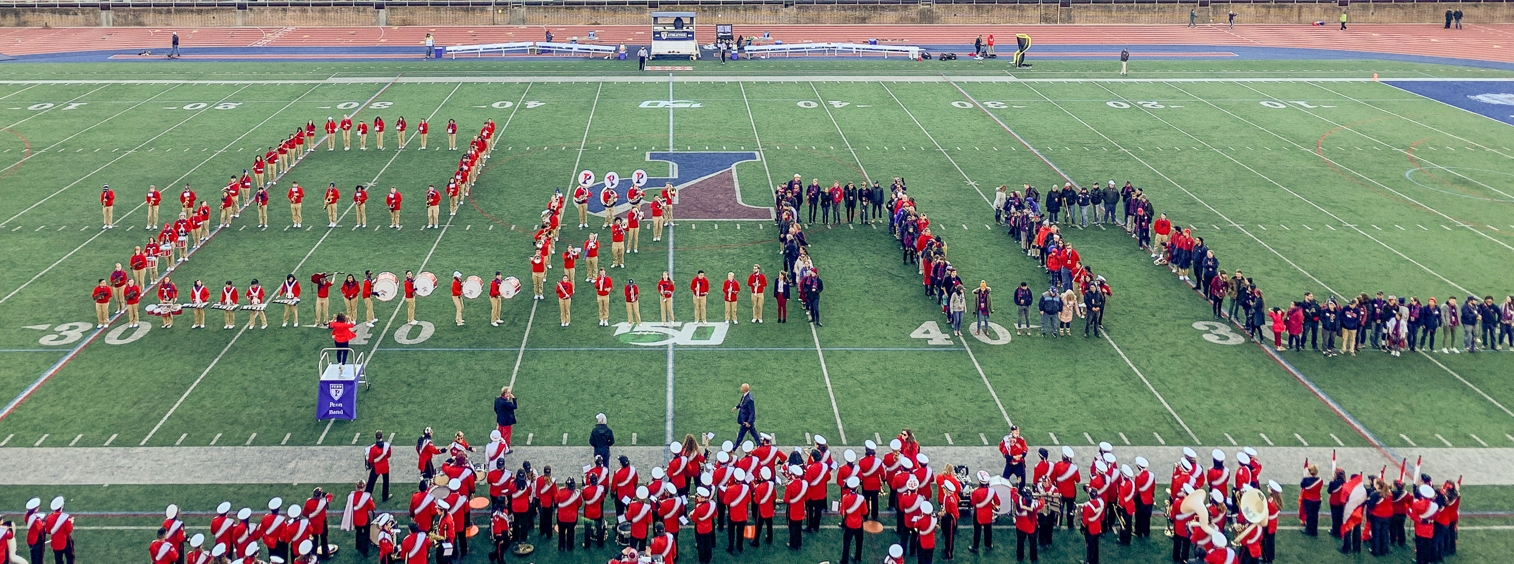 UPenn band members and alumni spell out "Penn" during homecoming game, while Cornell marching band members look on from the sidelines. November 9, 2019. Penn defeated Cornell, 21-20.